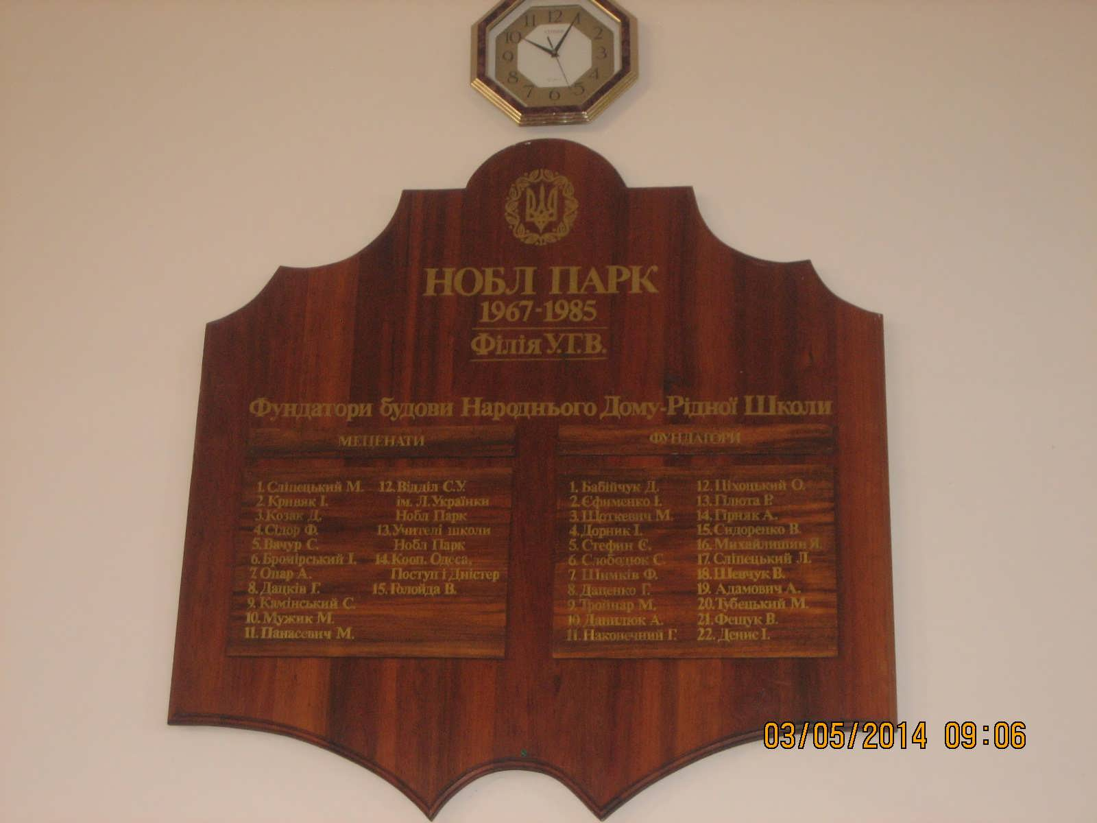 Founders of the Ukrainian House in Noble Park